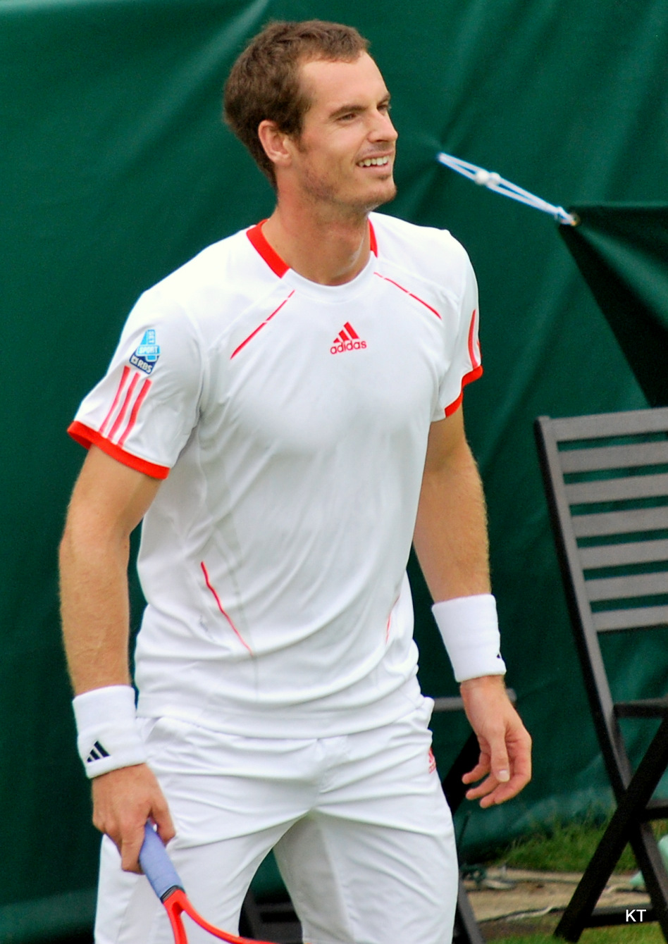 The Boodles, Stoke Park, June 2012.